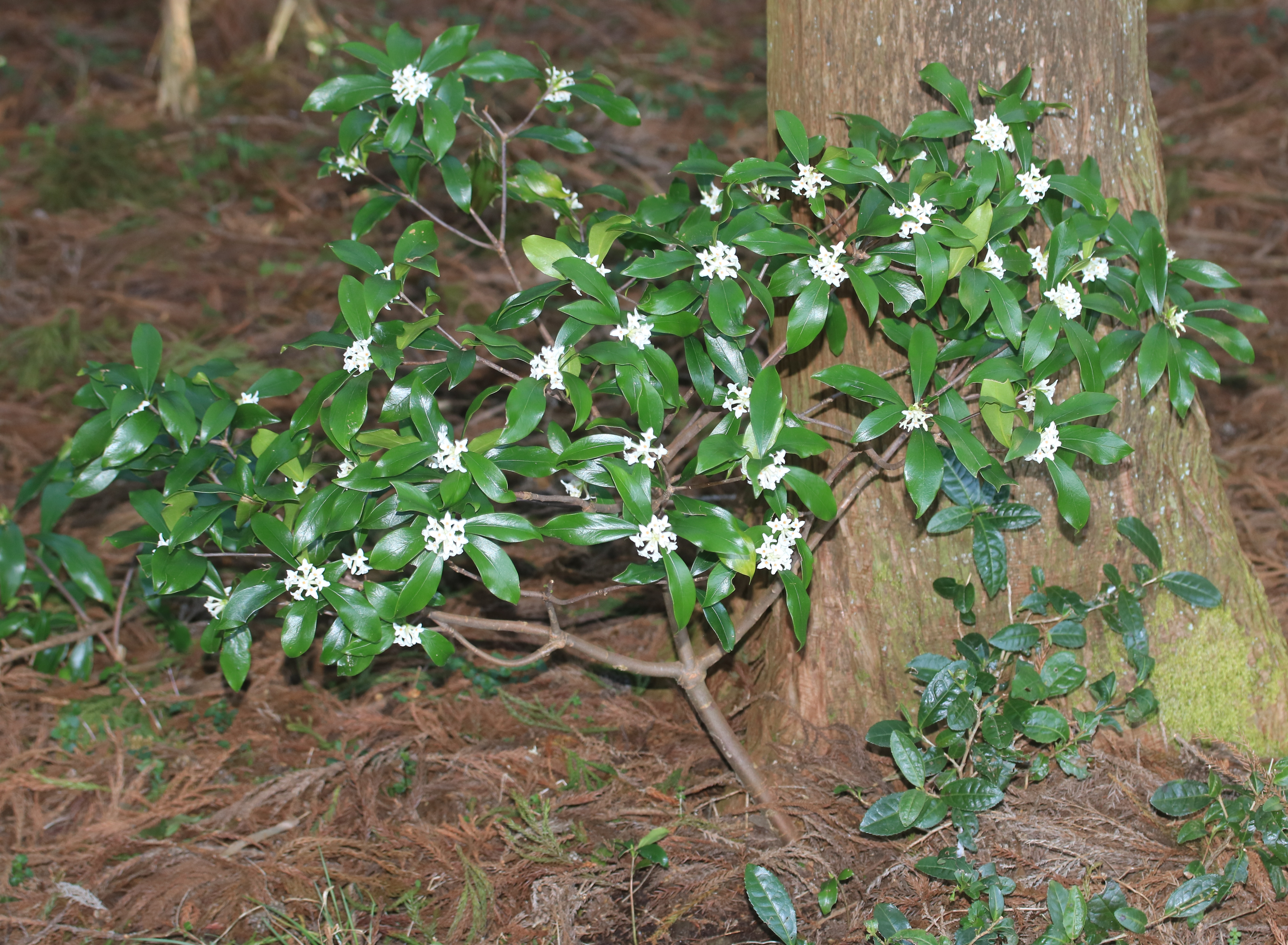 Daphne kiusiana in Mount Fujiwara of Suzuka Mountains, Inabe, Mie Prefecture, Japan.